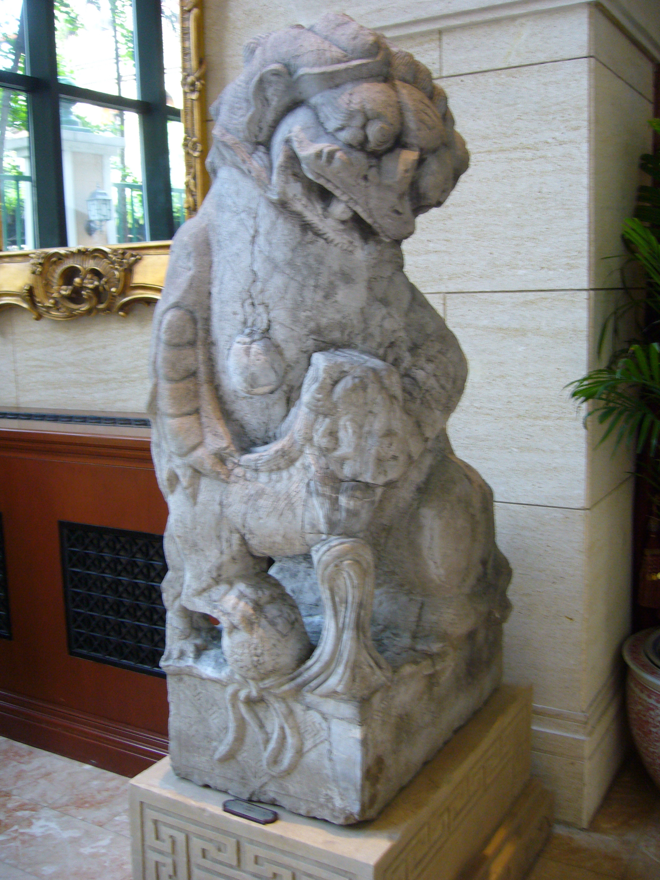 Temple lions in the Moller Villa in Shanghai